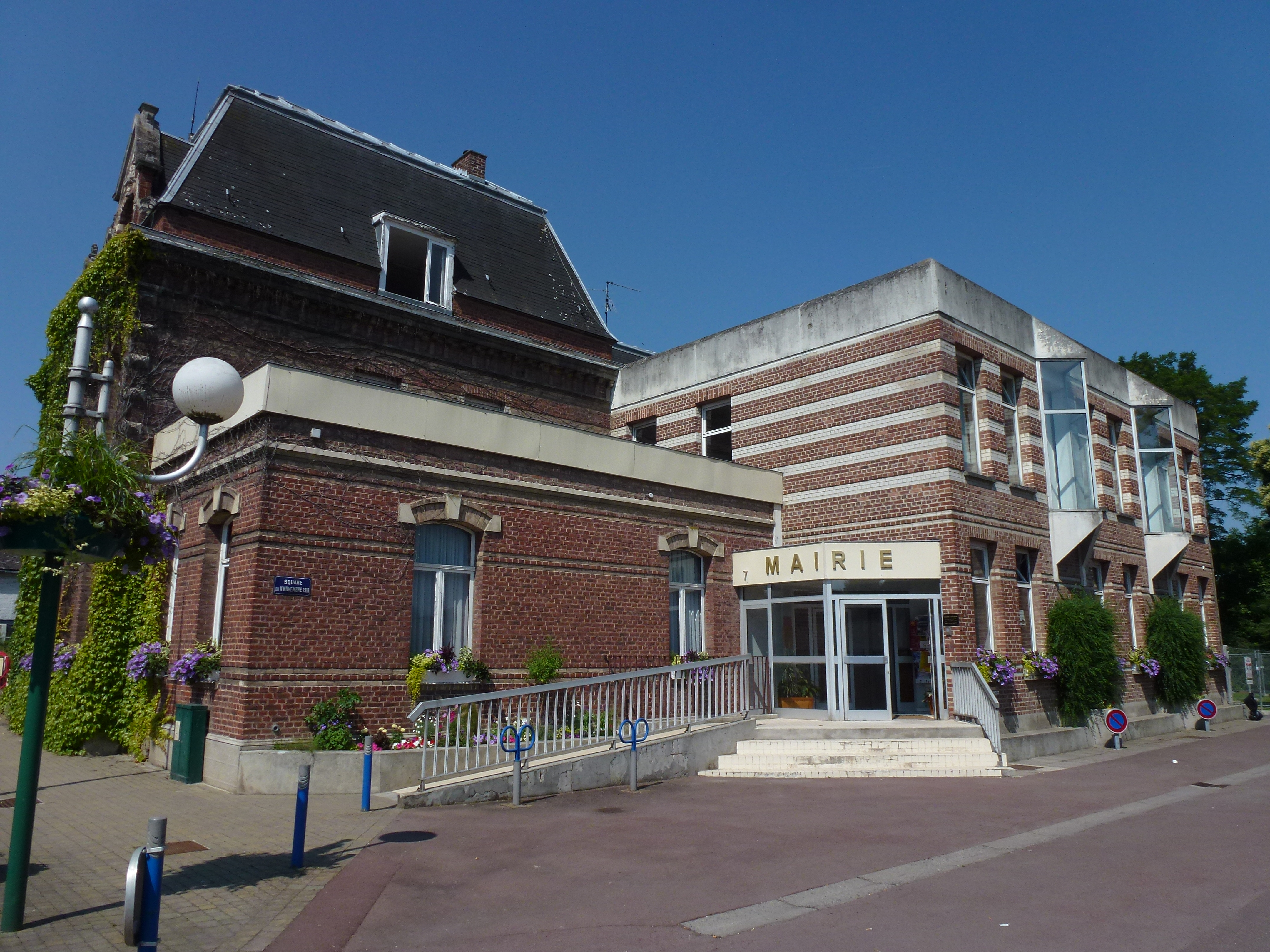 Saint-Saulve (Nord, Fr) mairie